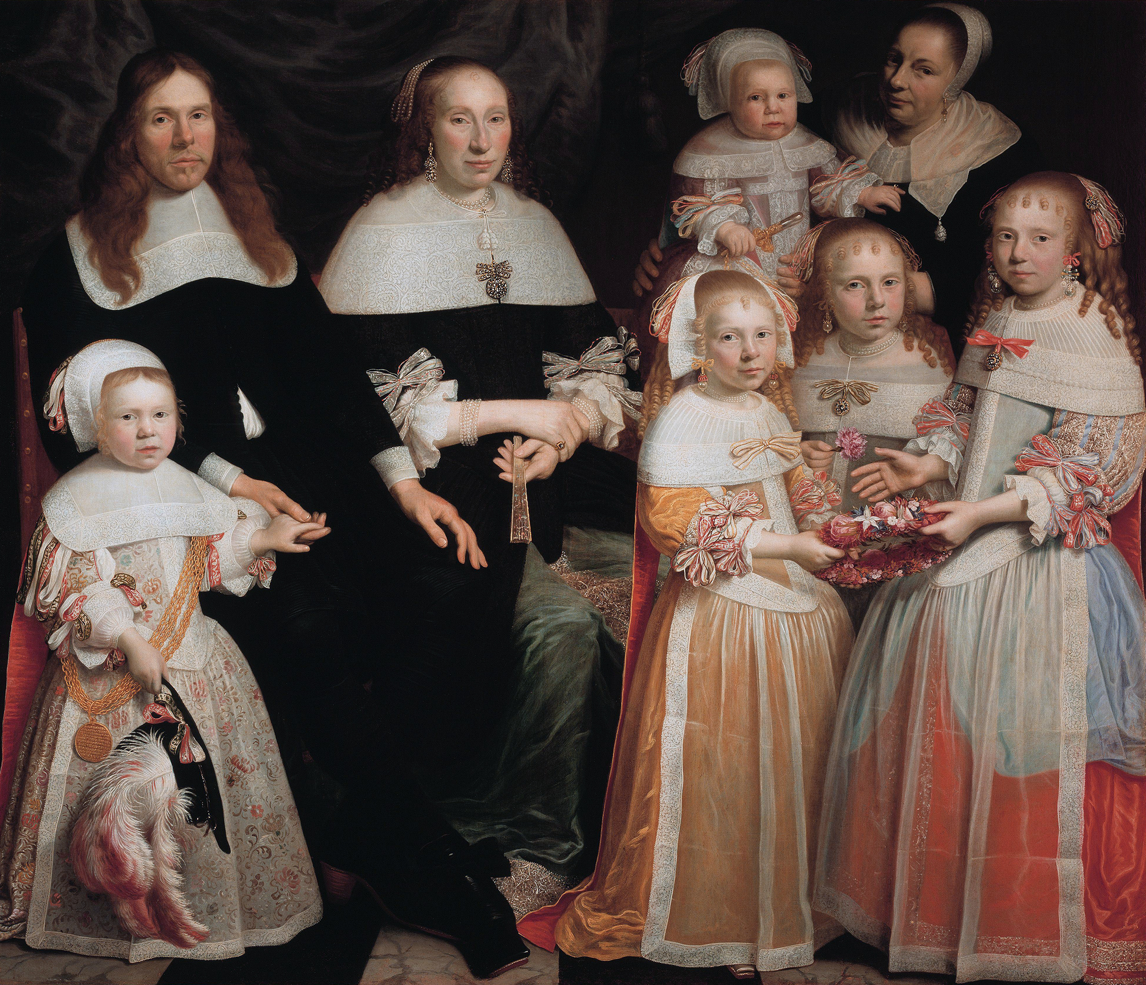 The family Meyndert Sonck (1626-1675) and Agatha van Neck (1634-1707) and their children oil on canvas 148,3 x 173,3 cm signed t.r.: ARootius fecit 1662